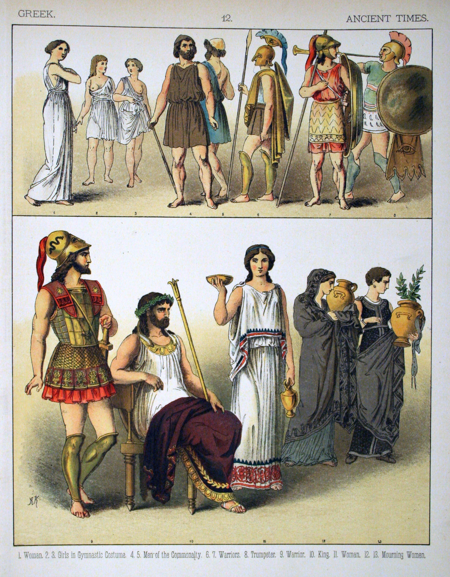 Ancient Times, Greek